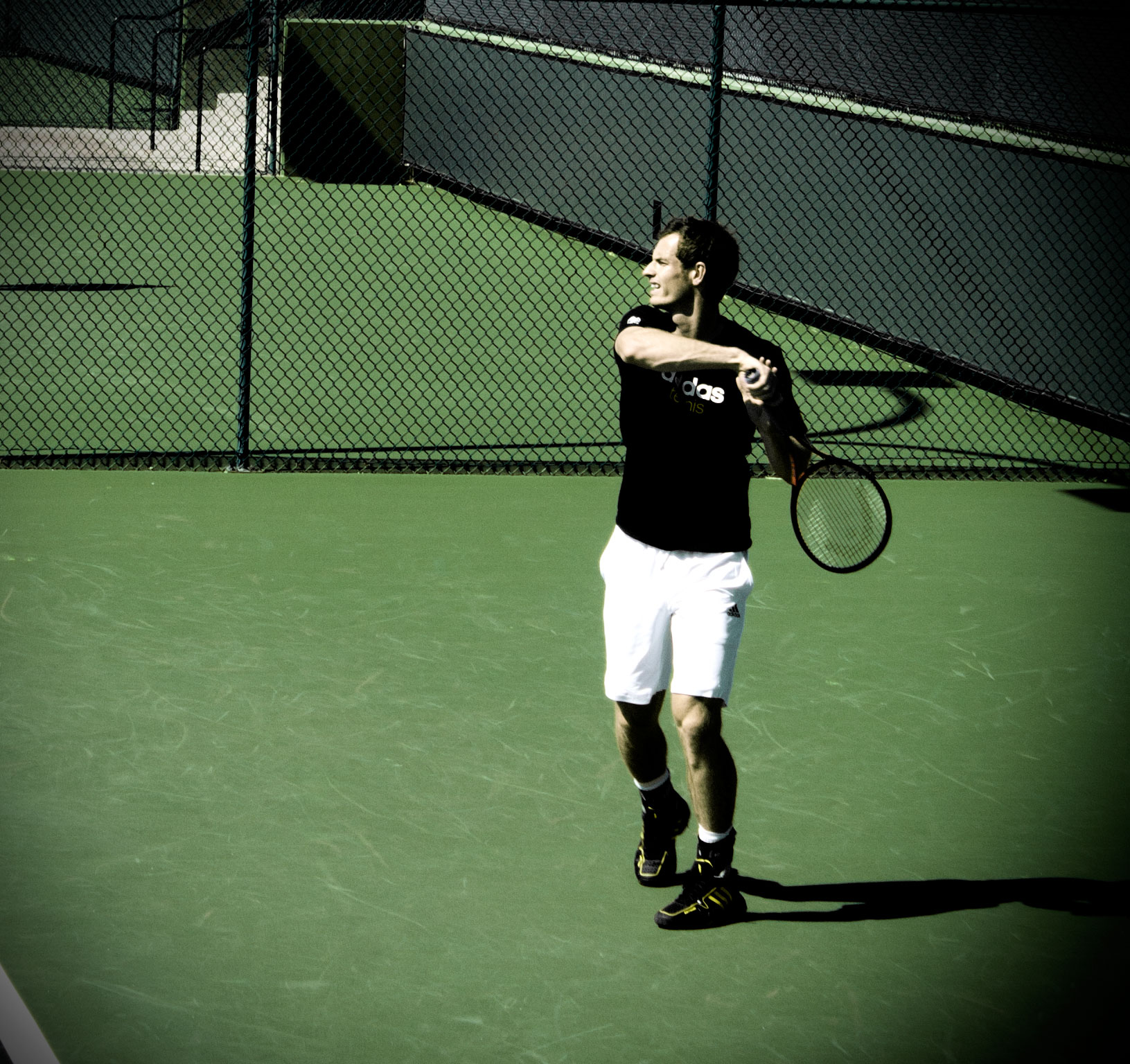 Indian Wells practice court - 2013 - Andy Murray.